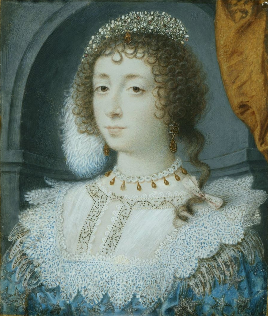 Portrait of Queen Consort Henrietta Maria of France